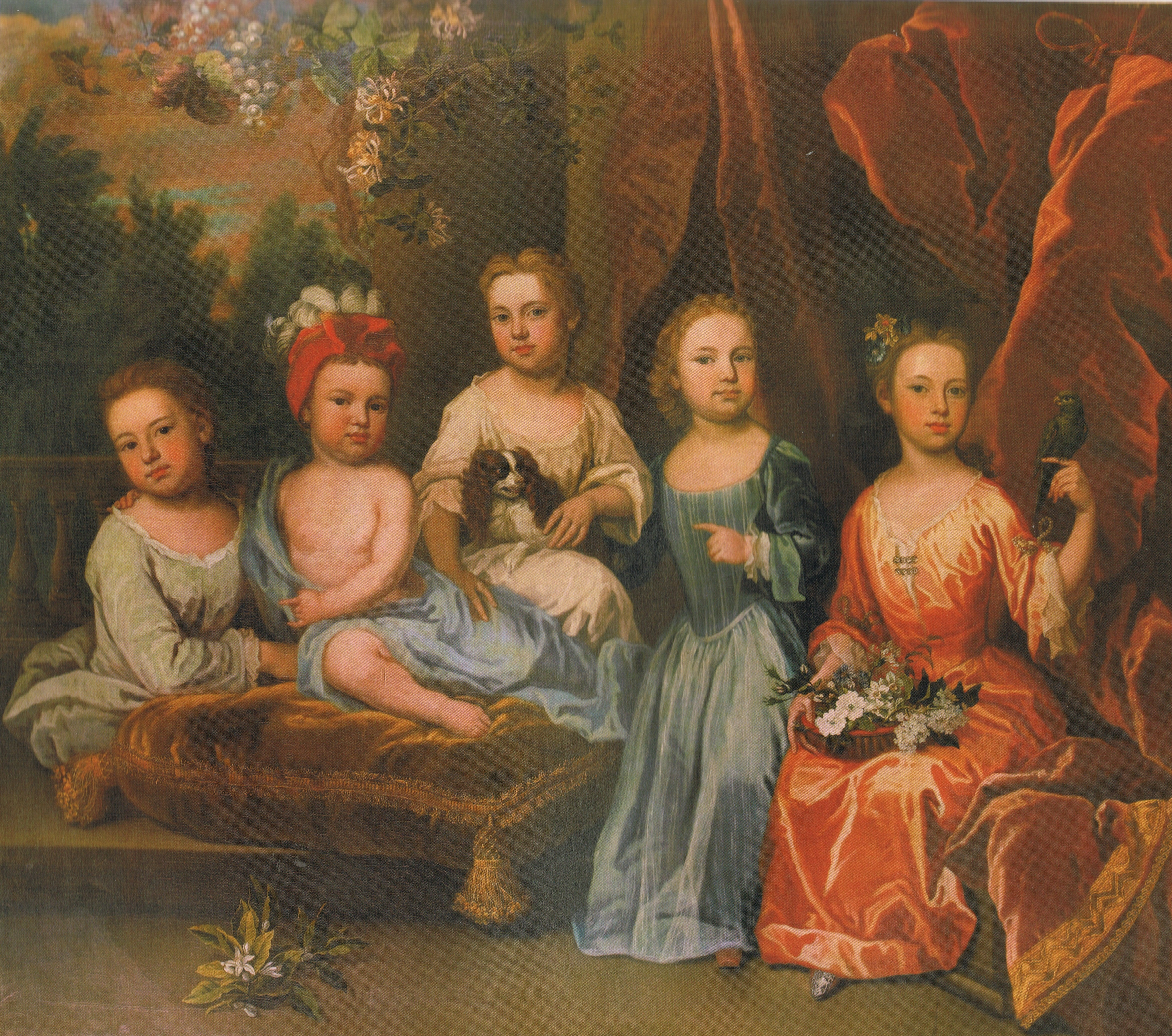 A portrait painting of four of the daughters and the son of Robert Smith (died 1748), a merchant of the City of London, and his wife Ann. They lived in Thames Street in the parish of St. Garlickhythe, and then moved to Mortlake, Surrey, England, UK. As Robert and Ann Smith are supposed to have married around 1705, the painting may be dated to around 1718.